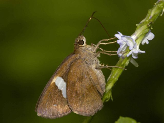 Common Banded Demon, Notocrypta paralysos at Namdapha National Park, India